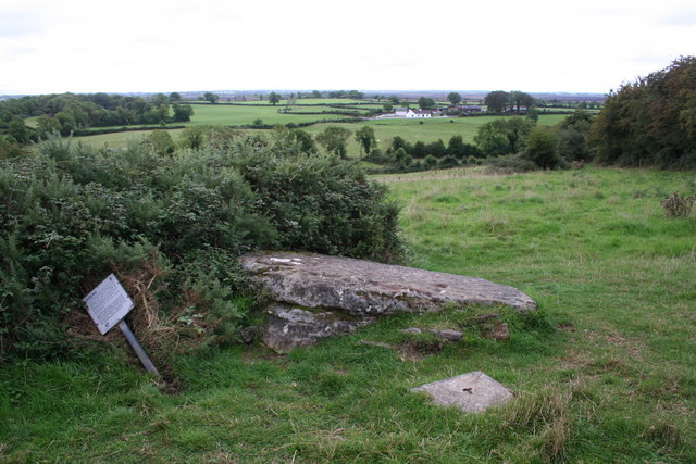 Carved Stone, Clonfinlough. This boulder lying flat on the ground has been decorated with crosses and other motifs. Many of the other marks are thought to be natural weathering.